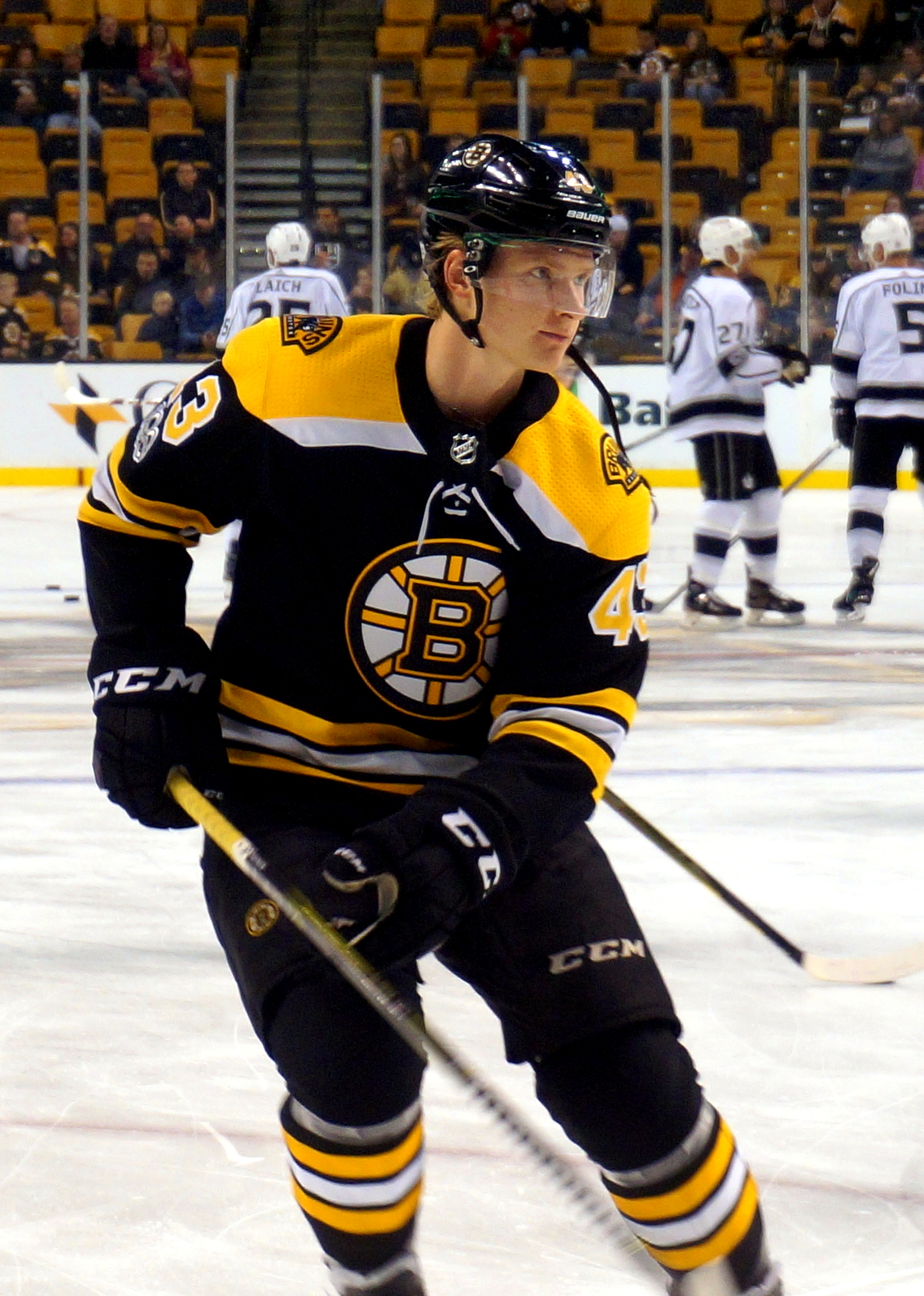 Danton Heinen at Boston Bruins warm-ups at TD Garden, Boston, MA